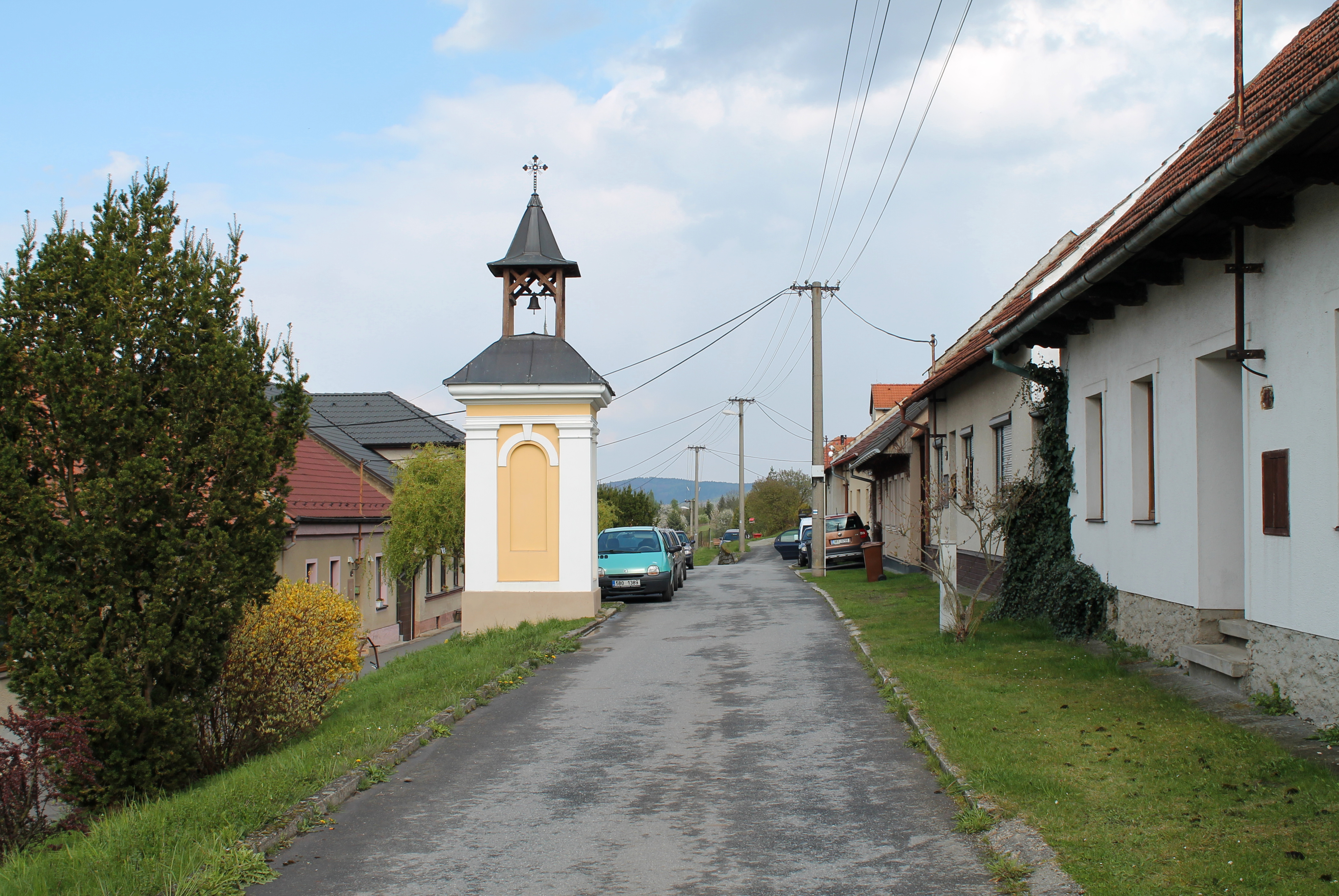 Lhota, Letovice, Blansko District, Czech Republic This photograph was taken during a group photography field trip by Brno Wikipedians: 2017-04-29.